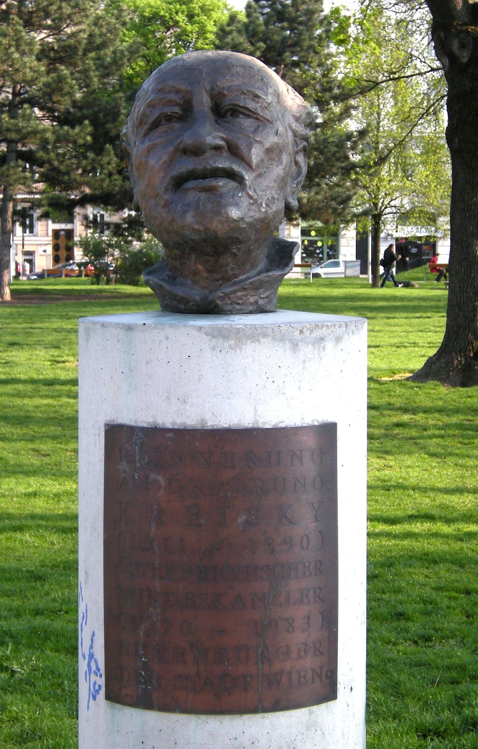 Bruno Kreisky bust in 'Bruno Kreisky Park', Vienna, Austria.